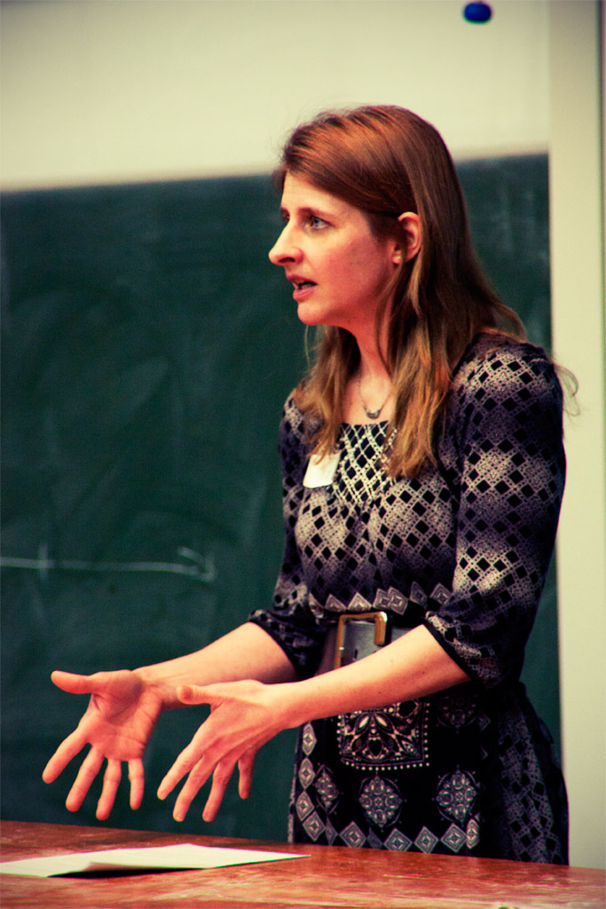 Tricia Sullivan's Guest of Honour Slot @ Picocon 2012